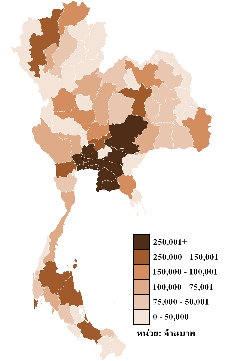 Thai GPP for year 2017